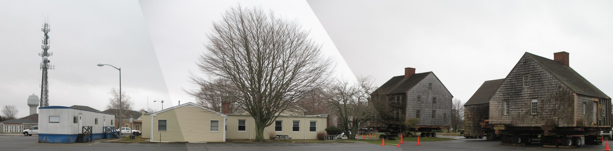 House trailers made up much of the business of East Hampton town. In April 2007, historic houses were moved to the campus in preparation of forming a new town hall.